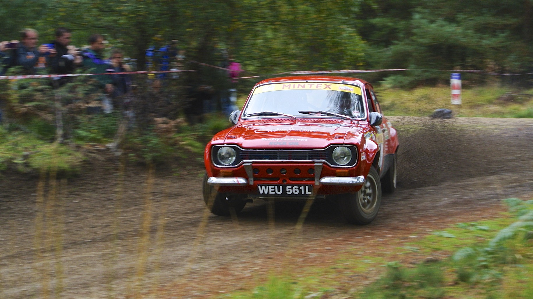 A super day out at the rally - and the rain held off too! Various classes of cars were racing from historic classics right up to current top spec factory cars. For sheer fun and exuberance nothing can beat the sight of a well driven rear wheel drive Escort and who does not enjoy the classic Mini, or a Saab? All photos taken with the Nikon V1 camera in S mode, a slowish shutter speed was used to enable panning with a blurred background.